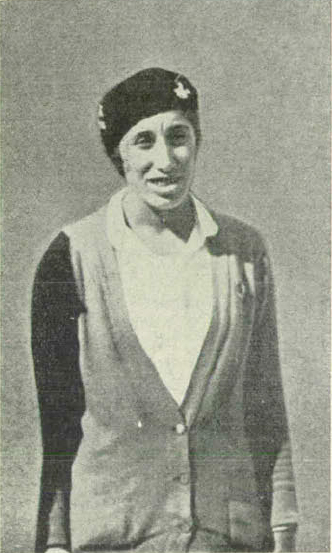 Lucia Valerio, Italian tennis champion